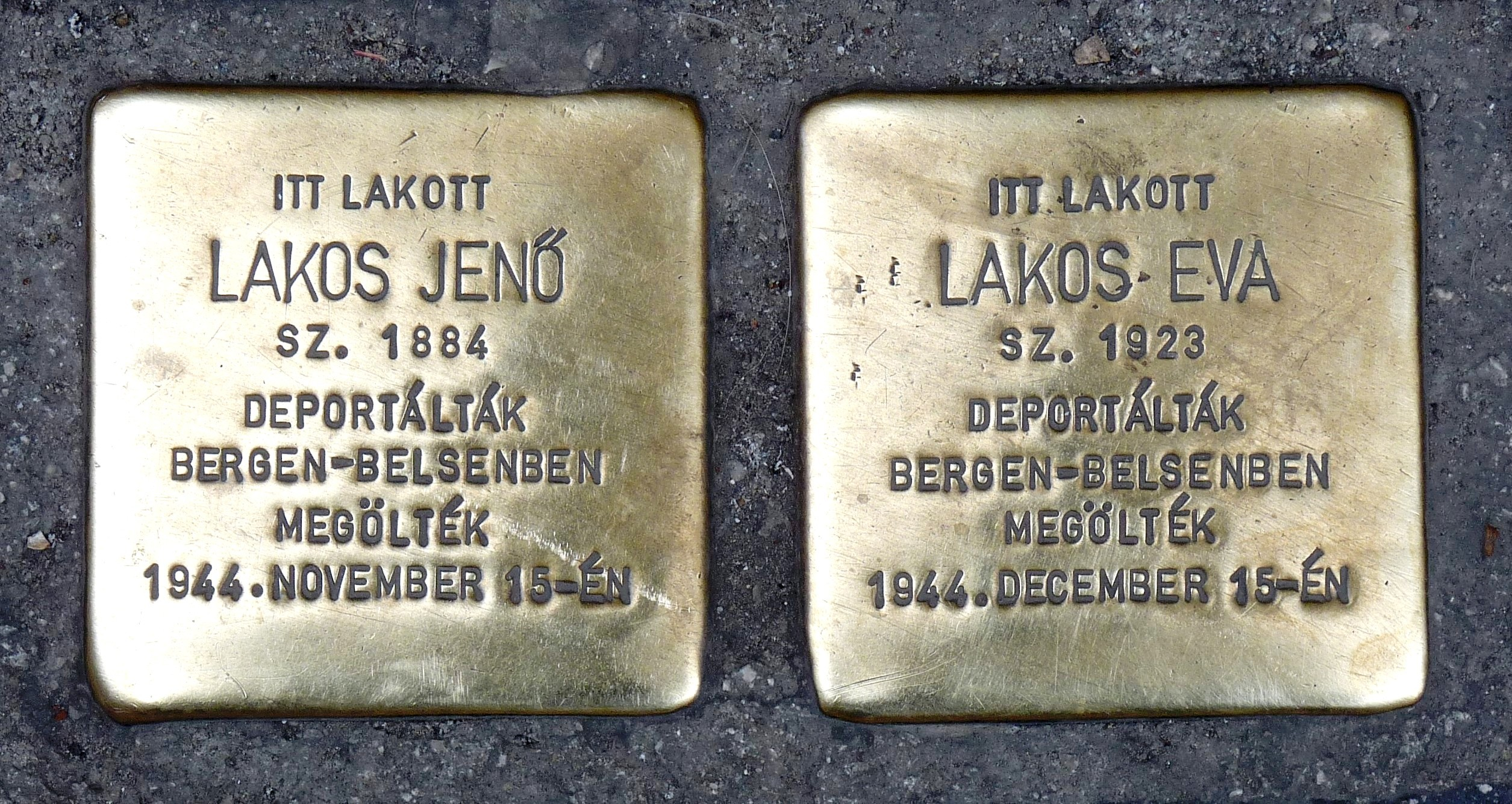 Stolperstein in memory of Mr. Jenő Lakos (1884-1944) and his girl, Miss Éva Lakos (1923-1944), at the entrance of their former home. (Budapest, District VIII, Kis Stáció Street Nr 1).